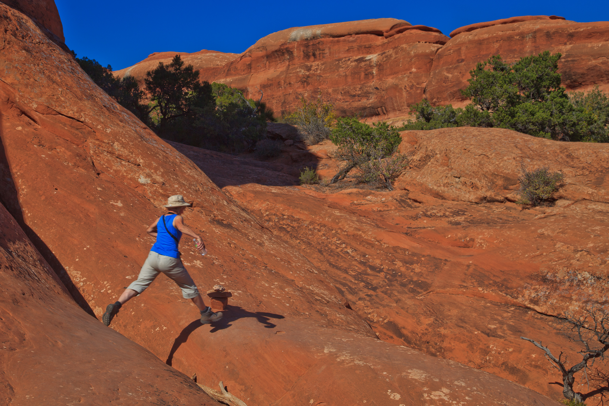 Arches National Park…Sanne in full stride